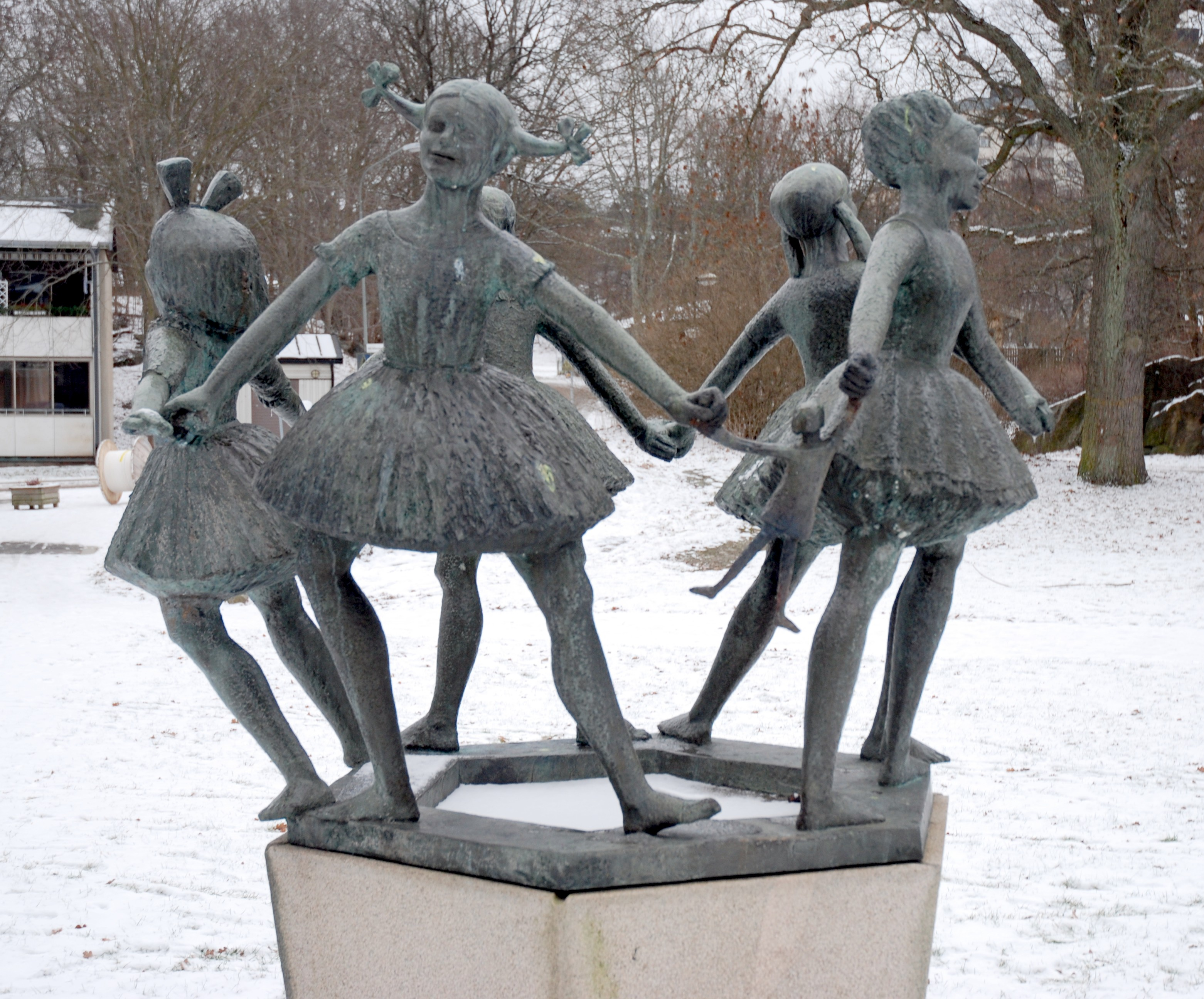 Astrid Rietz´ Dancing girls, Stockholm, Sweden